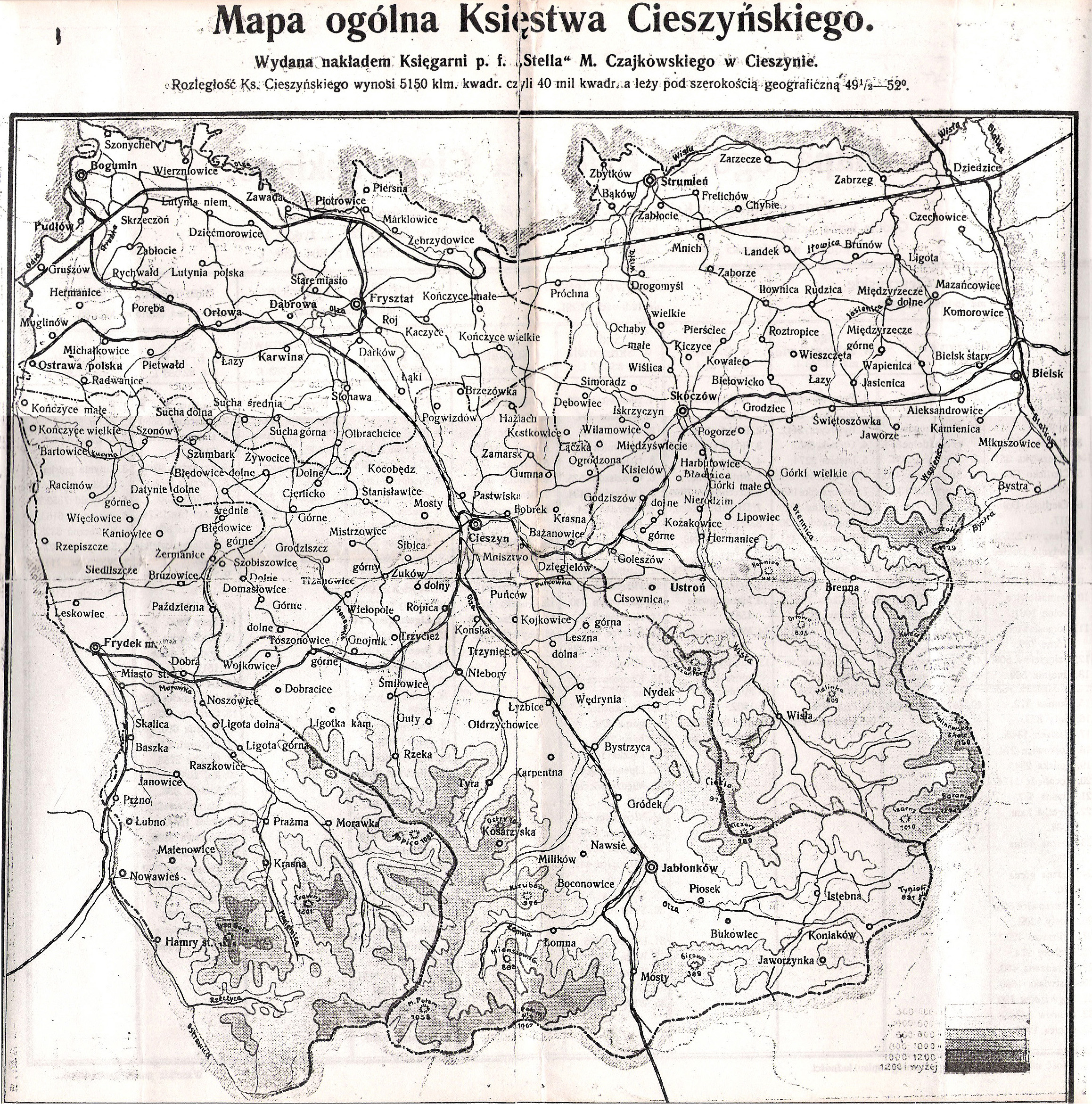 Map of the Duchy of Cieszyn